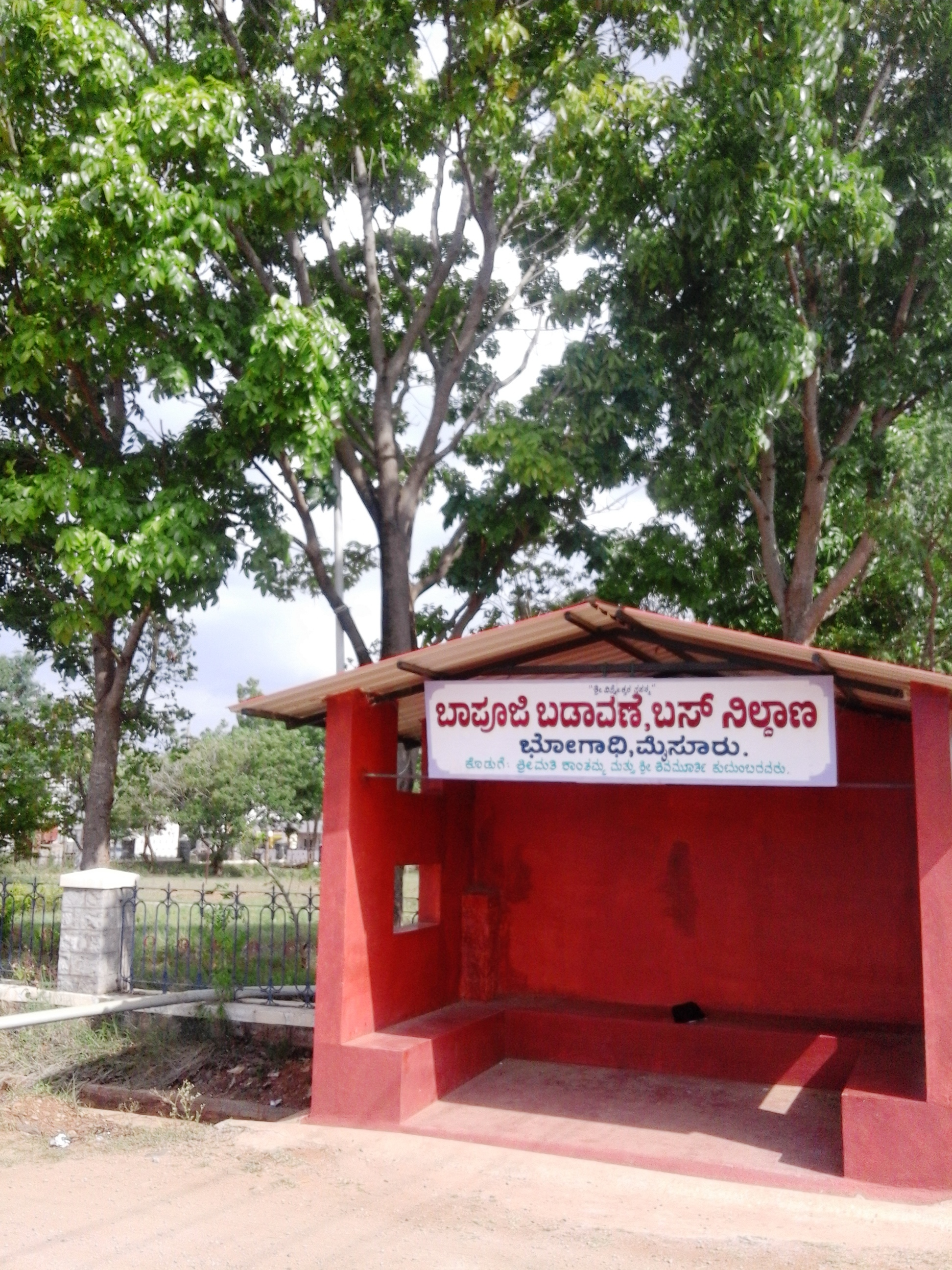 Mysore city, Karnataka state, India.